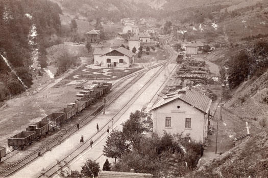 Train station Borouchtitza